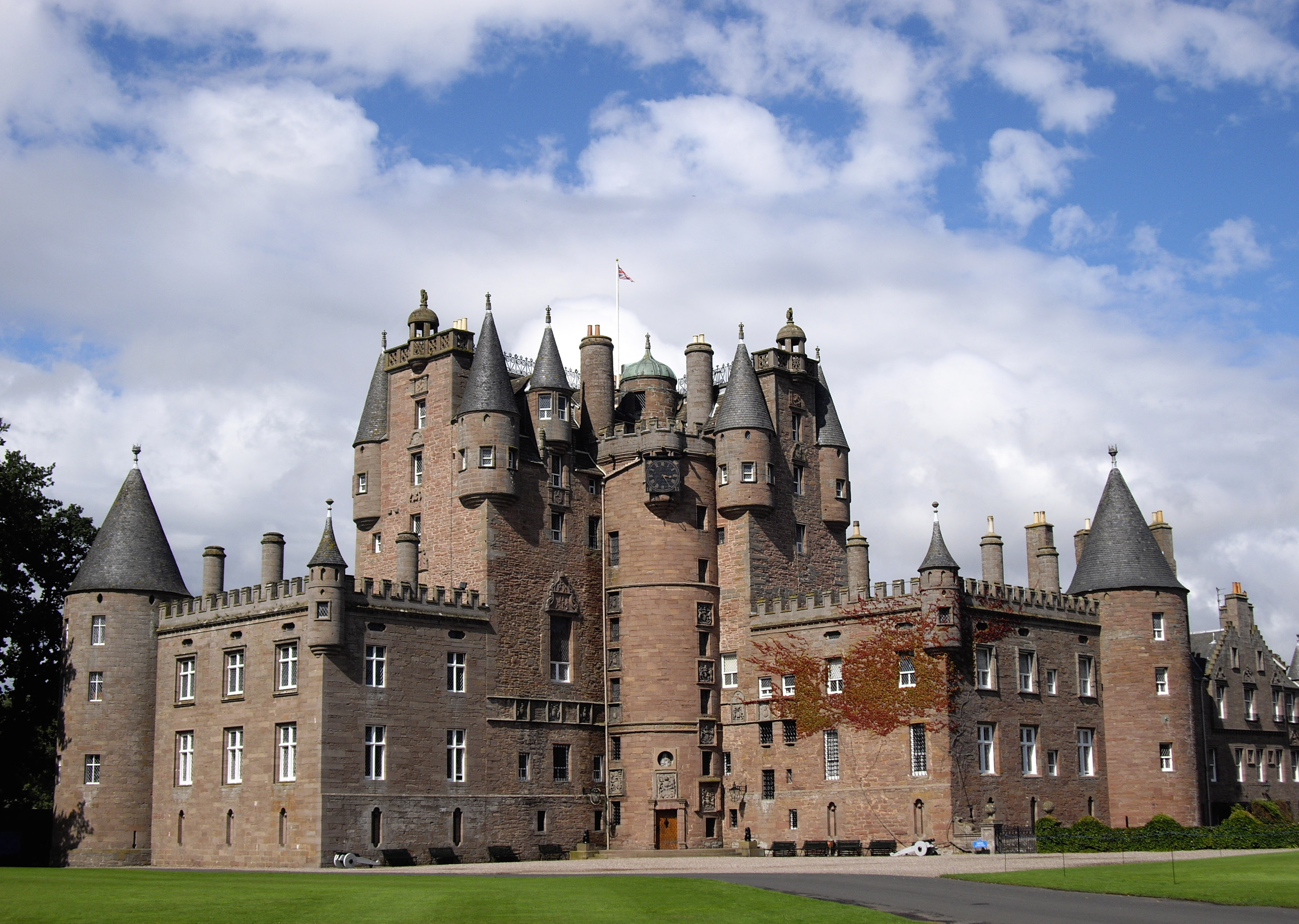 Glamis Castle, Scotland